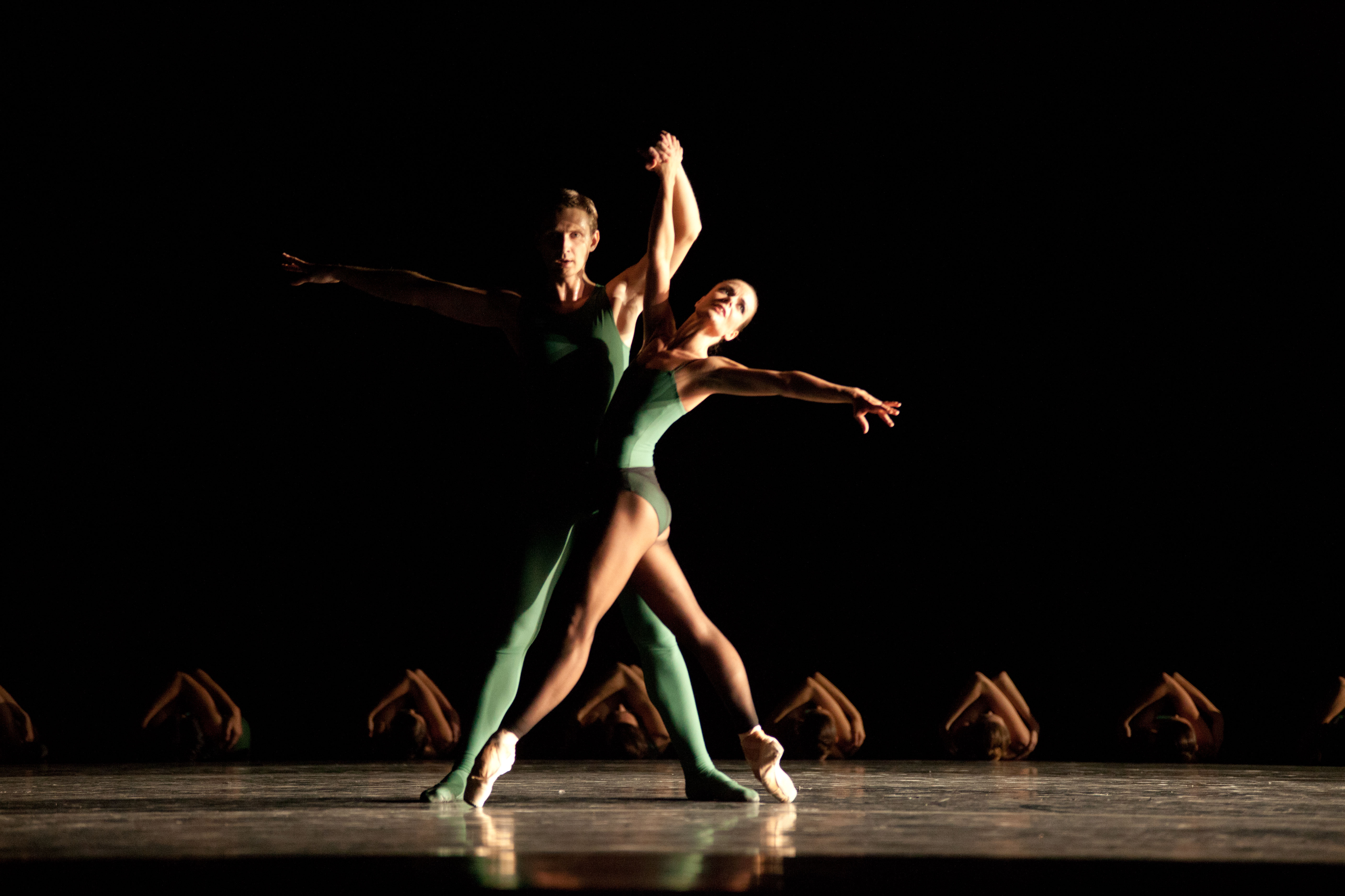 "Artifact Suite" by William Forsythe, Polish National Ballet, dancers: Marta Fiedler & Robert Bondara